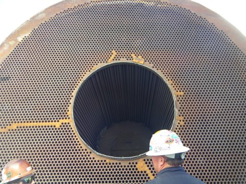 Shell & Tube Regenerator with Busted Tubes Plugged